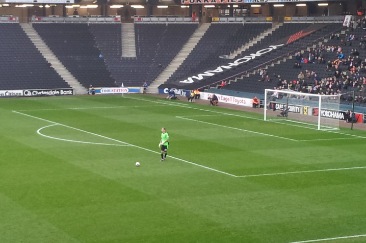 George Long playing for Sheffield United V MK Dons on 10th November 2012.